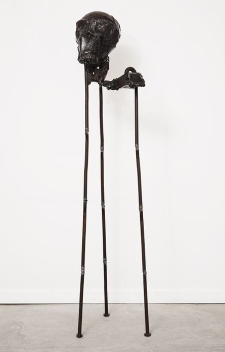 Iron sculpture by Danish artist Tejn.